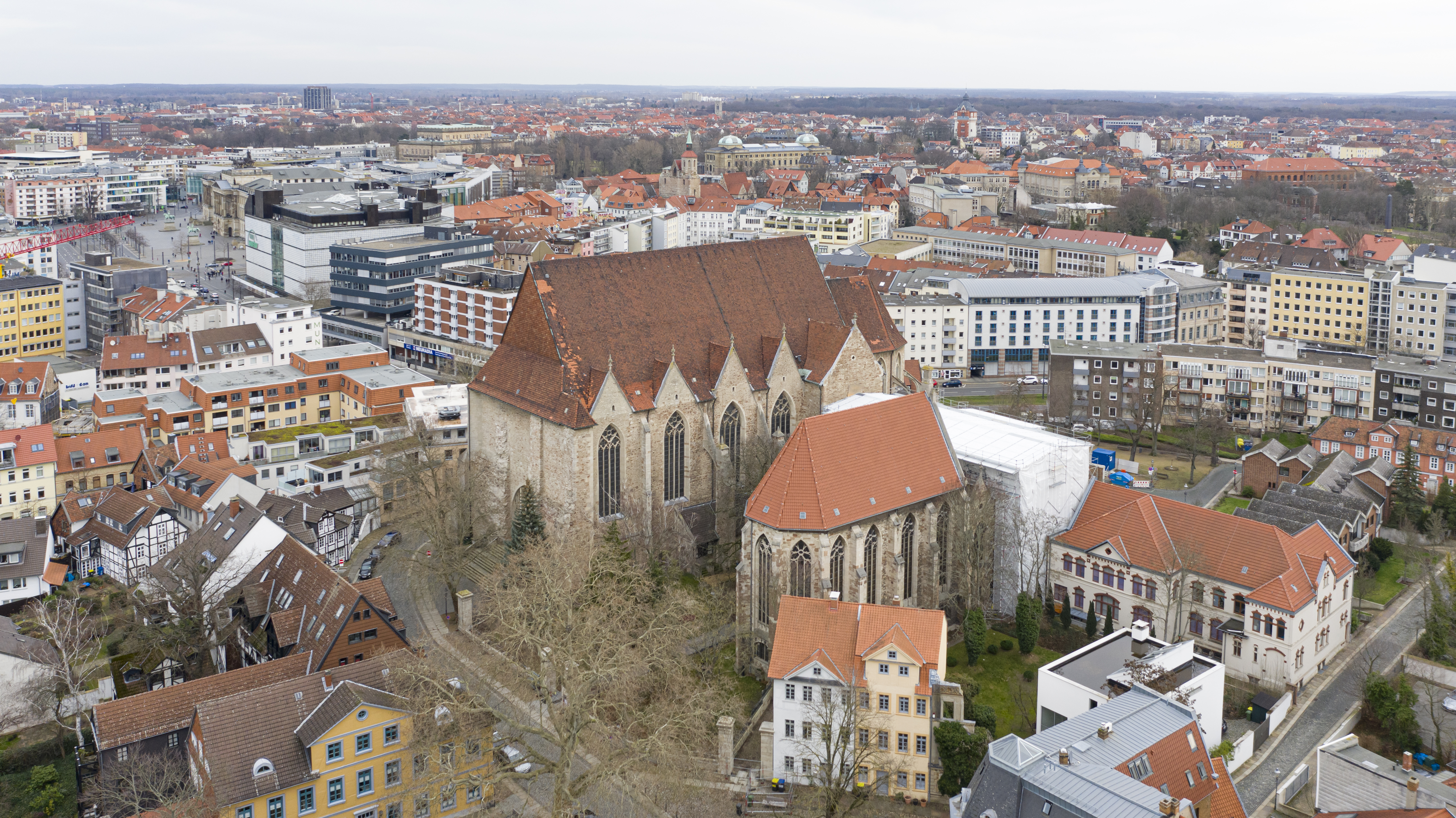 Exterior of St. Aegidien, Braunschweig, Germany